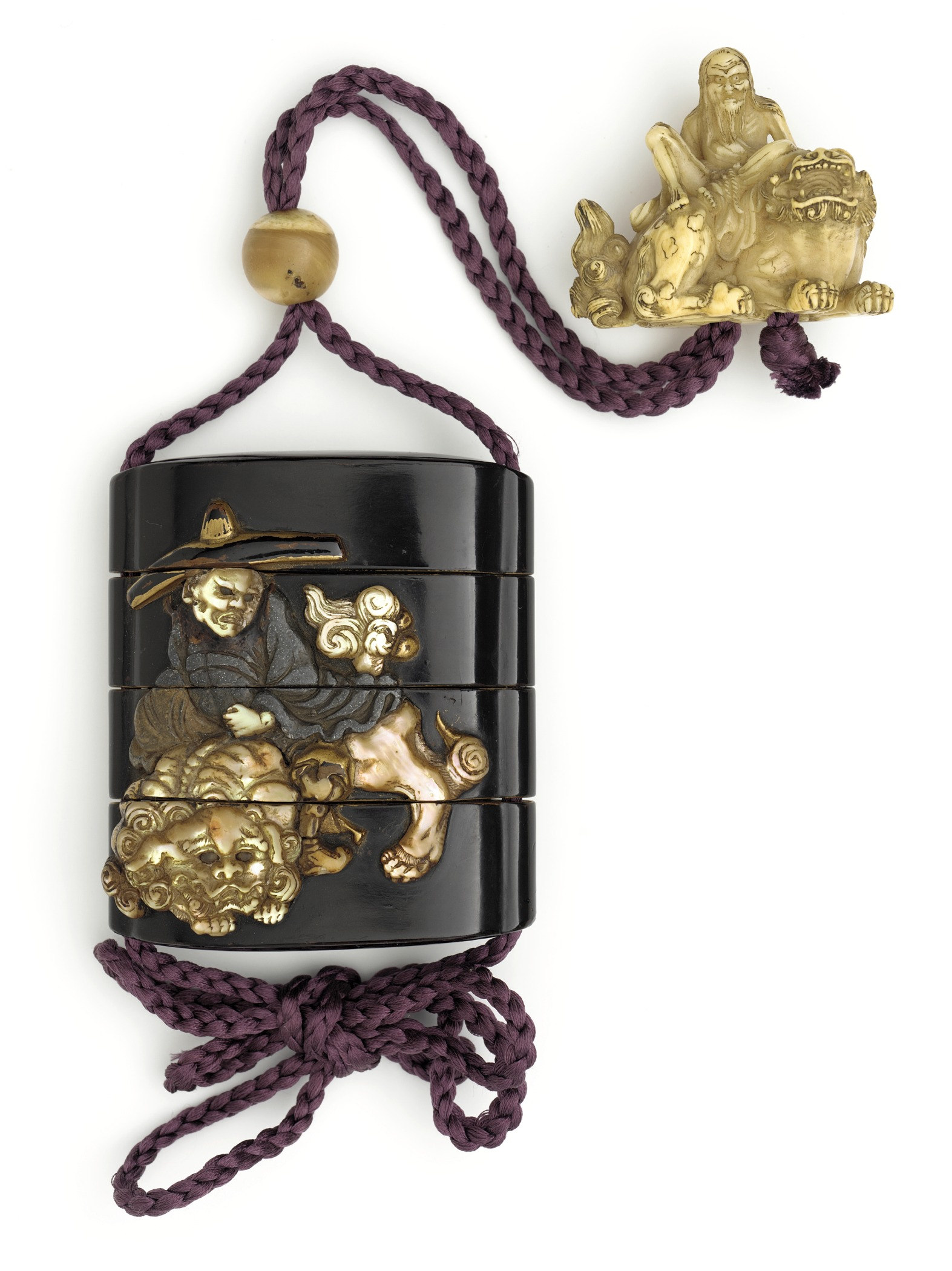 Japan, 18th century Costumes; Accessories Inrō: lacquer on substrate with mother-of-pearl inlays, pewter; Ojime: mother-of-pearl; Netsuke: marine ivory Inrō: 2 5/8 x 2 1/4 x 7/8 (6.5 x 5.7 x 2.2 cm); Ojime: 1/2 x 1/2 in. (1.3 x 1.3 cm); Netsuke: 1 7/8 x 1 5/8 x 1 in. (3.6 x 4.1 x 2.4 cm) Raymond and Frances Bushell Collection (AC1998.249.313) Japanese Art